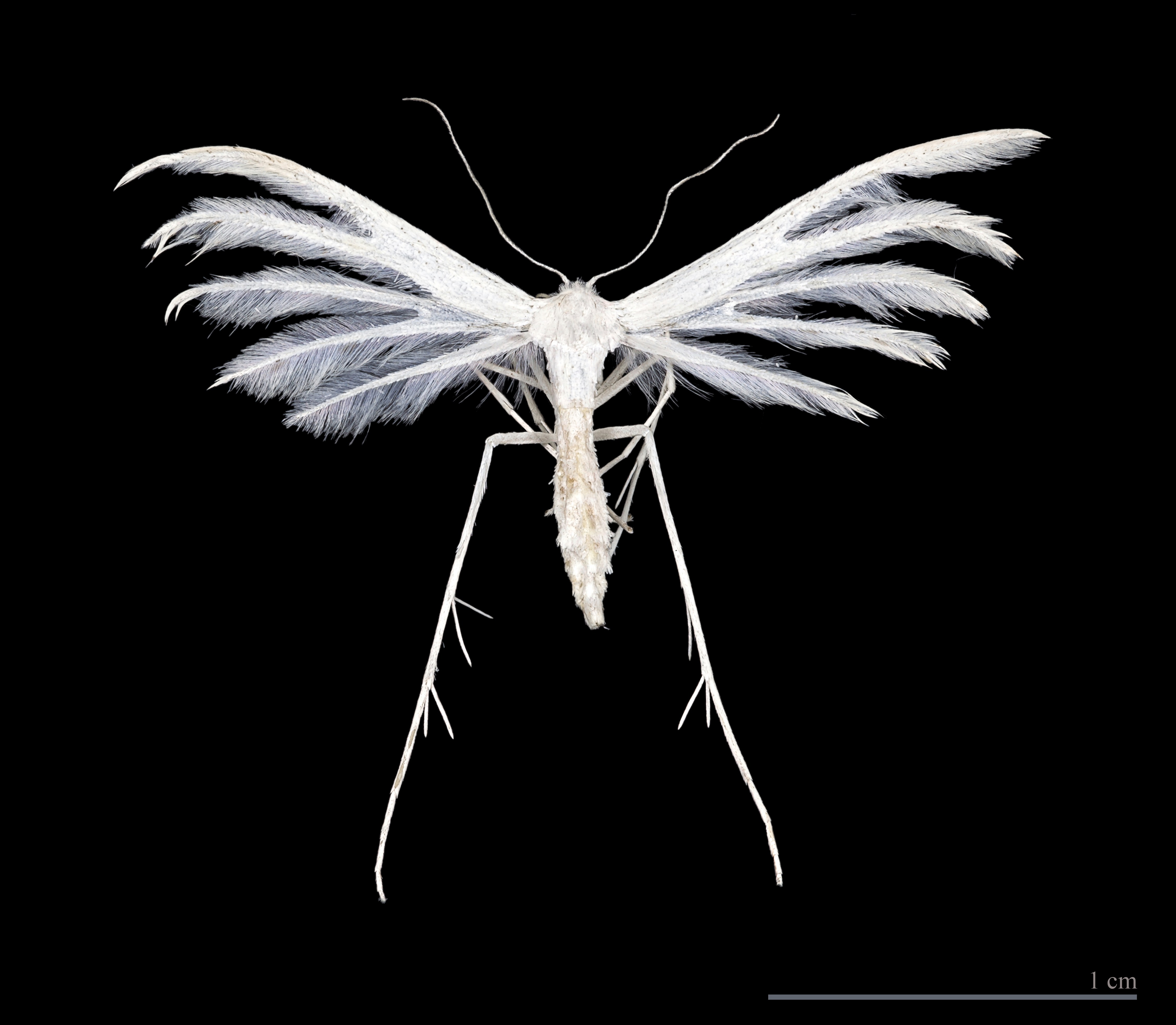 White Plume Moth ♂ - Dorsal side Locality: Lasparets, Sainte-Croix-Volvestre, Ariège, France